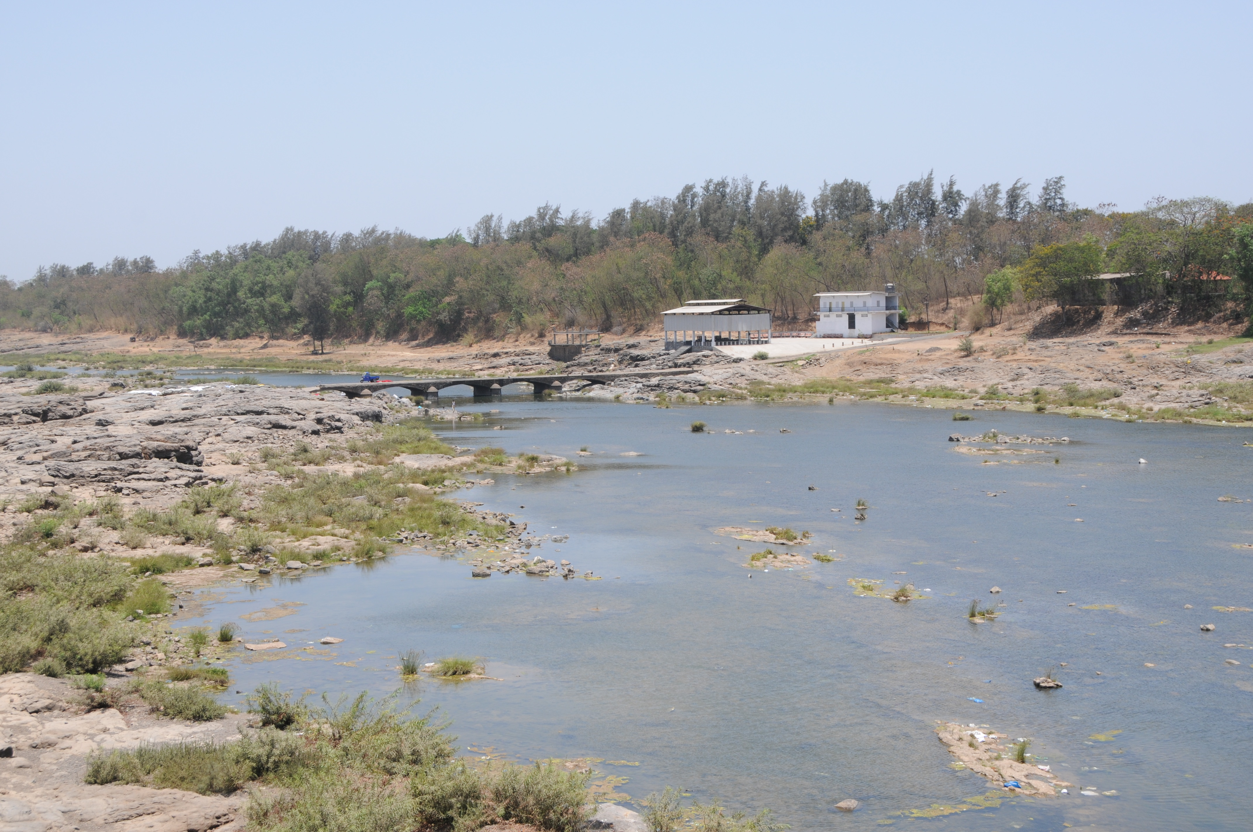 Damanganga river in Silvassa, Dadra and Nagar Haveli, India